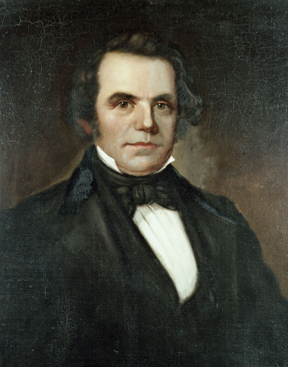 Henry Toole Clark, 1861 - 1862 From the General Negative Collection, State Archives of North Carolina, Raleigh, NC.